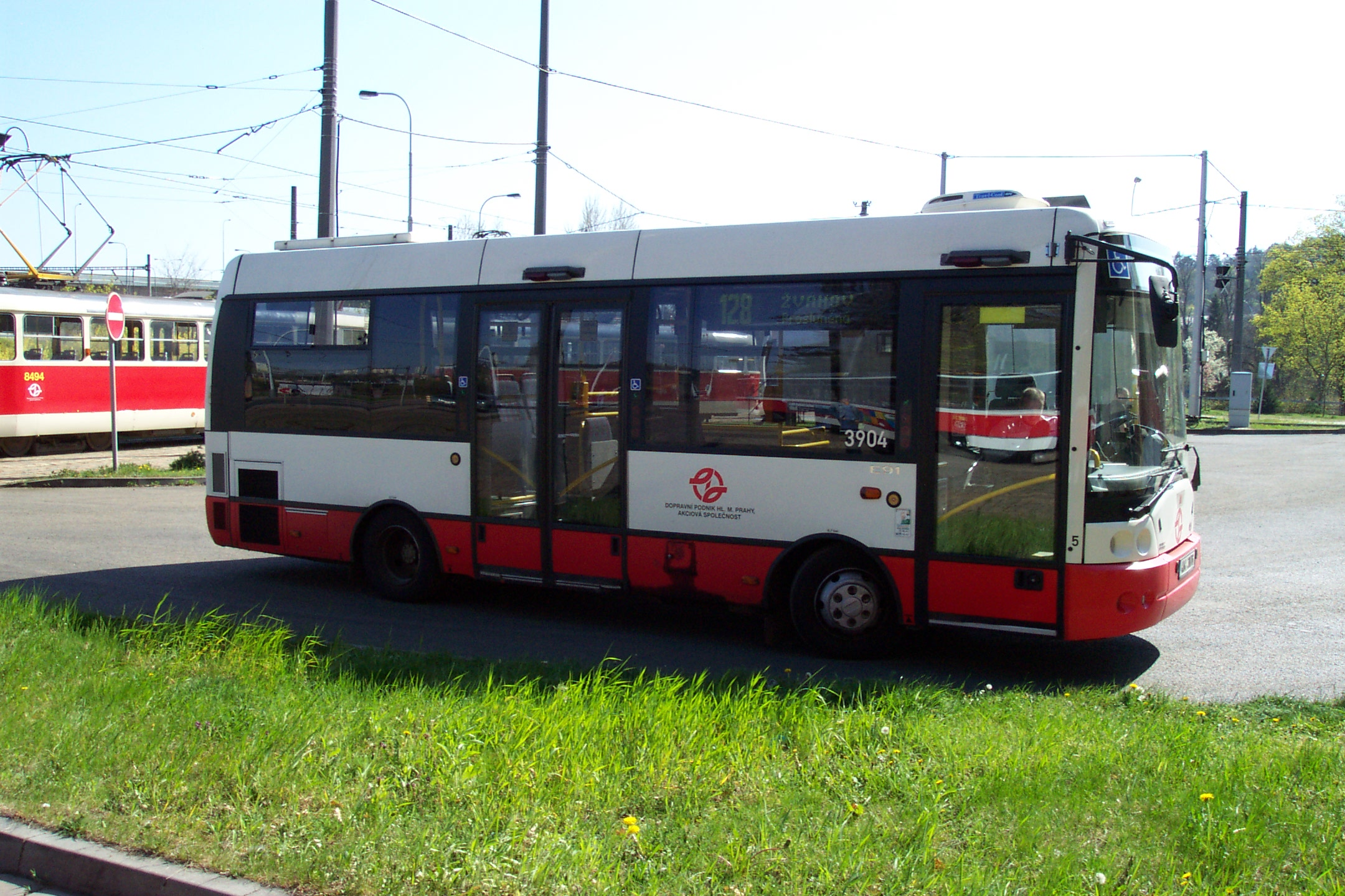 Prague, bus type Ikarus E91 in Hlubočepy